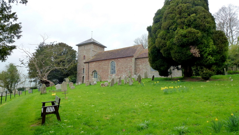 St Giles' parish church, Acton Beauchamp, Herefordshire, seen from the southeast